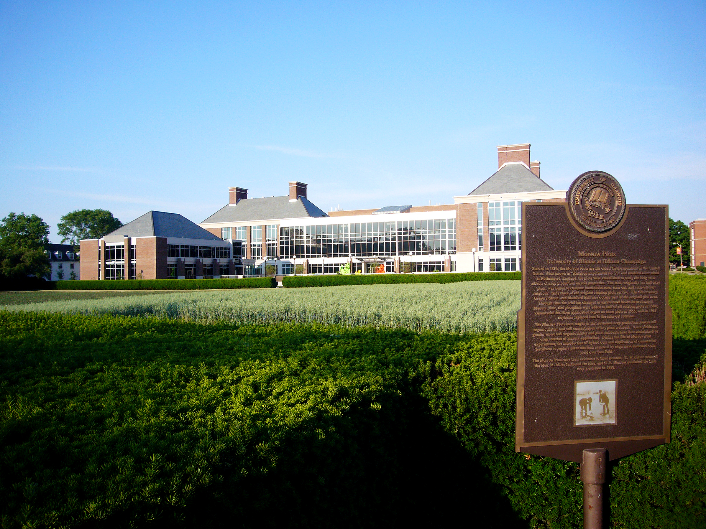 The Morrow Plots is an experimental corn field at the University of Illinois at Urbana-Champaign and is the oldest of its kind in the Western hemisphere and the second oldest in the world. It was established in 1876 as the first experimental corn field at an American college and continues to be used today, although with three plots instead of the original 10. The picture shows the plaque on the Morrows plot , with institute for Genomic Biology in the background.